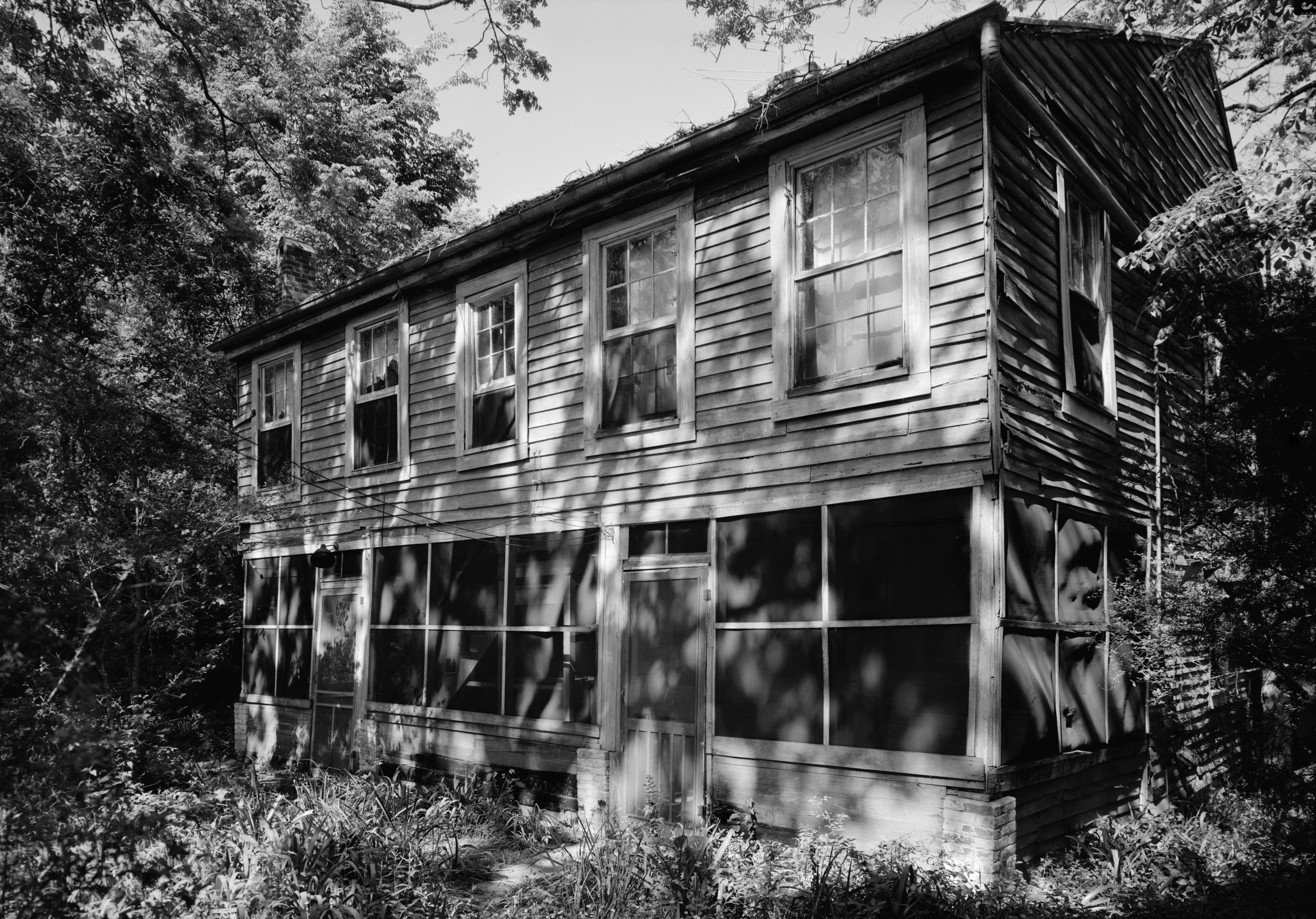 Exterior of the Assembly Hall — located at the intersection of Main (U.S. Route 61) and Assembly Streets in Template:Washington, Mississippi, Mississippi, United States. Built in 1808 as a tavern, it served unofficially as the final territorial capitol and the first state capitol of Mississippi. It is listed on the National Register of Historic Places in Adams County. 1972 Image: HABS—Historic American Buildings Survey of Mississippi.